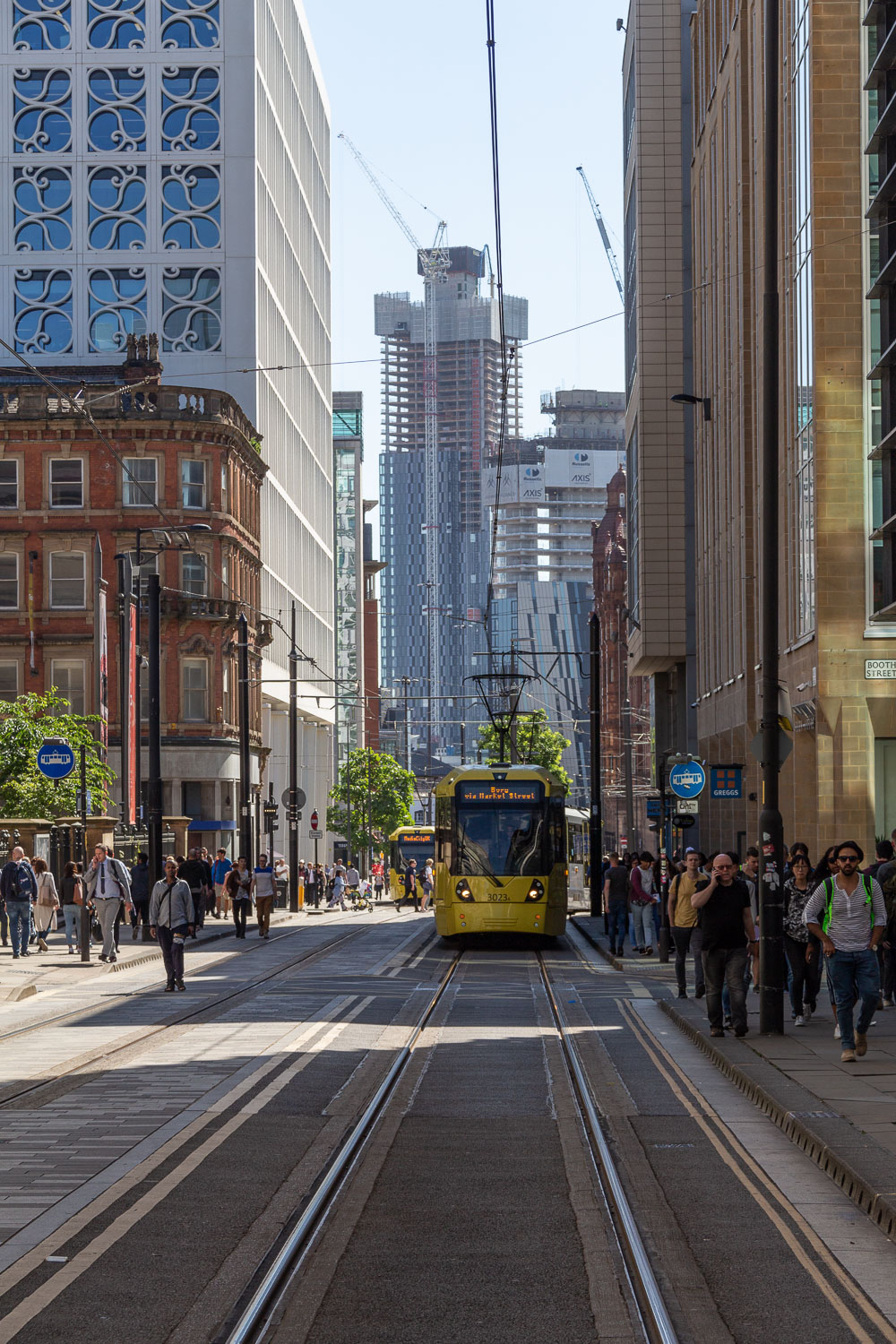 A tram approaching along the lines of Mosley Street in central Manchester. Photographer: Paul Stafford for If you want to use this photo free of charge, please link to